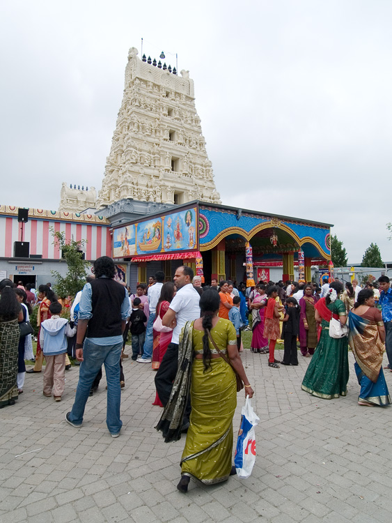 Sri Kamadchi Ampal temple, Hamm/Uentrop, Germany Impressions from the temple festival (slide show)